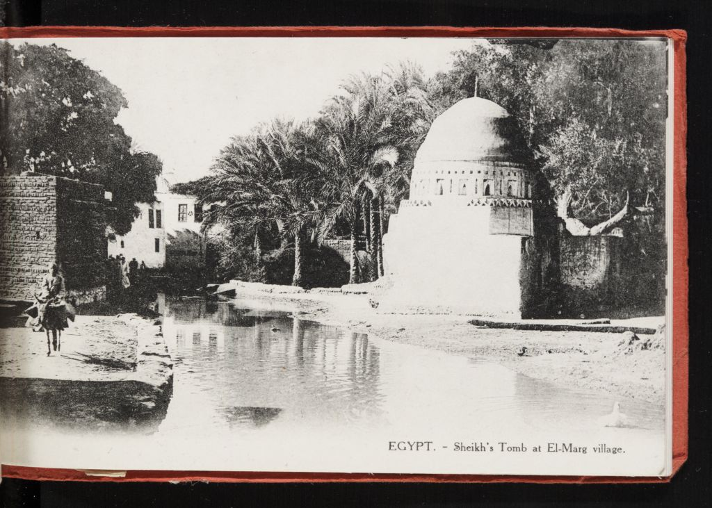 Domed building to the right of a small stream